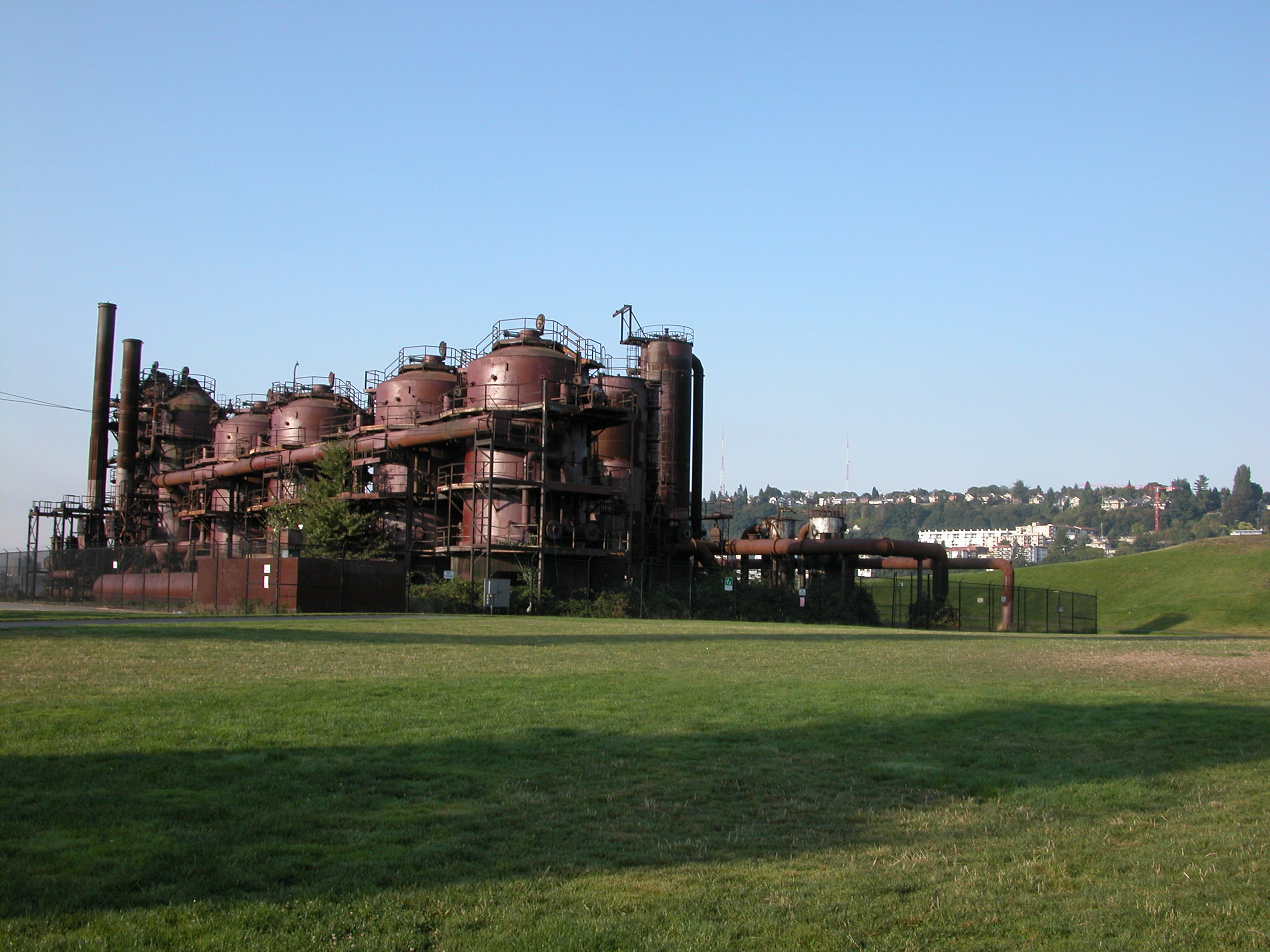 Gas Works Park